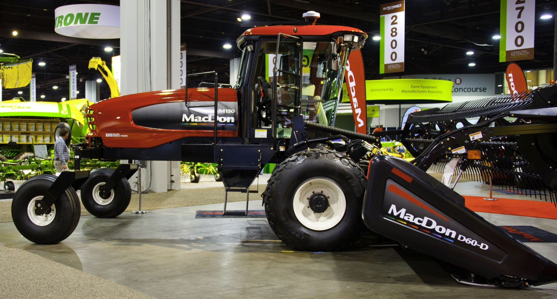 MacDon M150 (Dual Direction) windrower/swather (130 HP, 37 km/h) equipped with a MacDon D60-D draper header, AFBF 2011 exhibition, Atlanta, Georgia, USA. – "Although it looks like this is heading to the left, it's actually operated driving towards the right. However, it can also be operated in what looks like the "right" direction (towards the left) for easier transport."